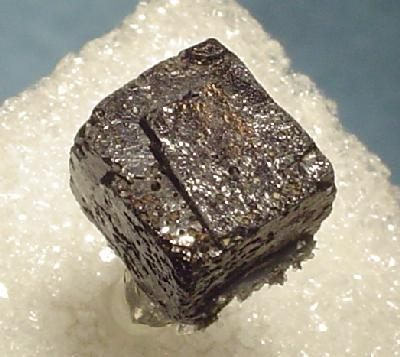 Thorianite Locality: Anosy (Fort Dauphin) Region, Tuléar (Toliara) Province, Madagascar (Locality at ) Size: 0.9 x 0.9 x 0.8 cm. A sharp, lustrous, dark chocolate-brown, complete-all-around thorianite cube from the Fort Dauphin Region of Madagascar. A fine crystal for the locality. This old-time specimen is from a find in the early 1970’s. Ex. Don Boydston Collection.